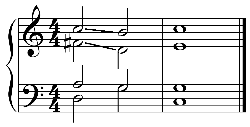 V of V in C, four-part harmony. Bruce Benward and Marilyn Nadine Saker (2003). Music: In Theory and Practice, Vol. I, seventh edition: p.269. ISBN 978-0-07-294262-0.